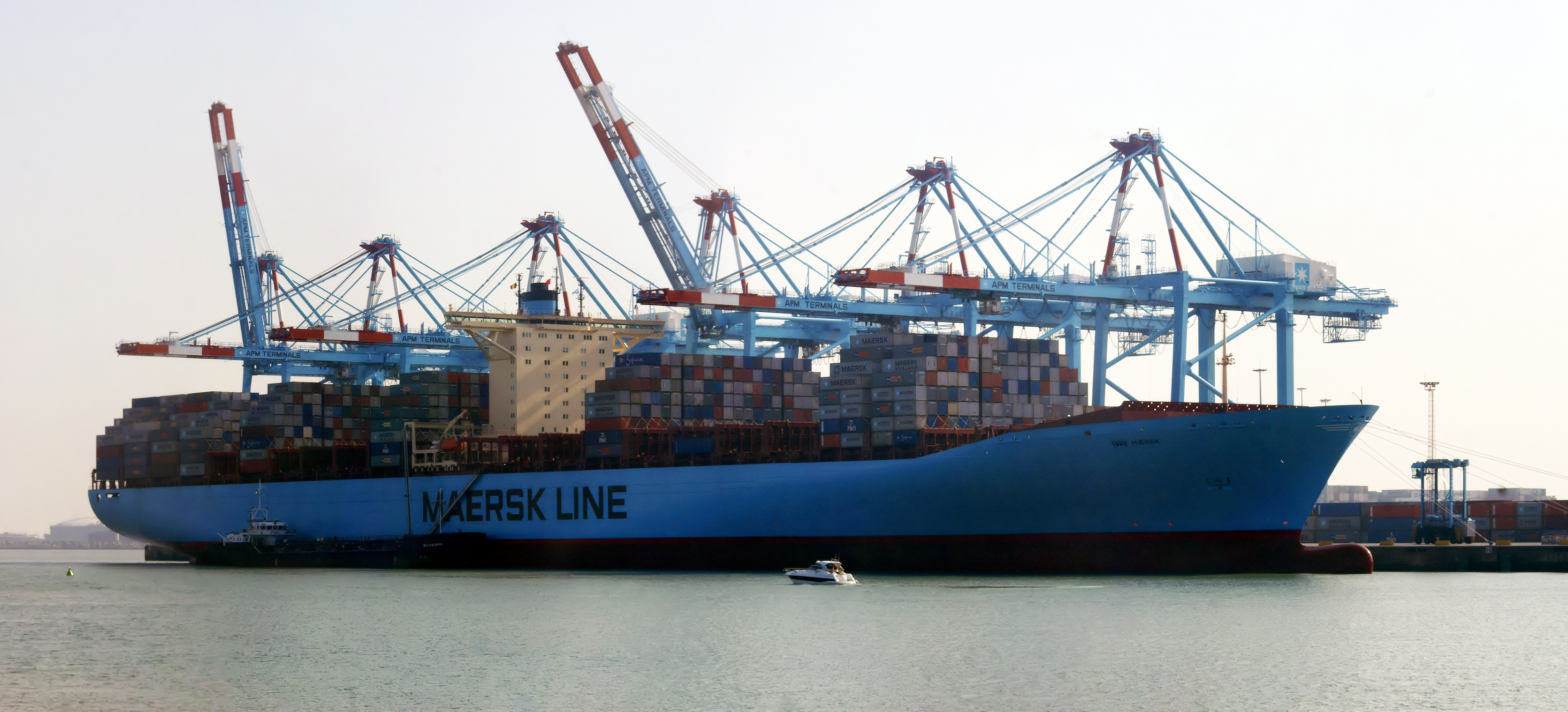 The Elly Mærsk, here at Zeebrugge port, is currently one of the world's largest container vessels, able to carry 11,000 TEU (Twenty-foot Equivalent Unit). IMO Number: 9321536 MMSI Number: 220499000 Callsign: OXHY2 Length: 397 m Beam: 56 m